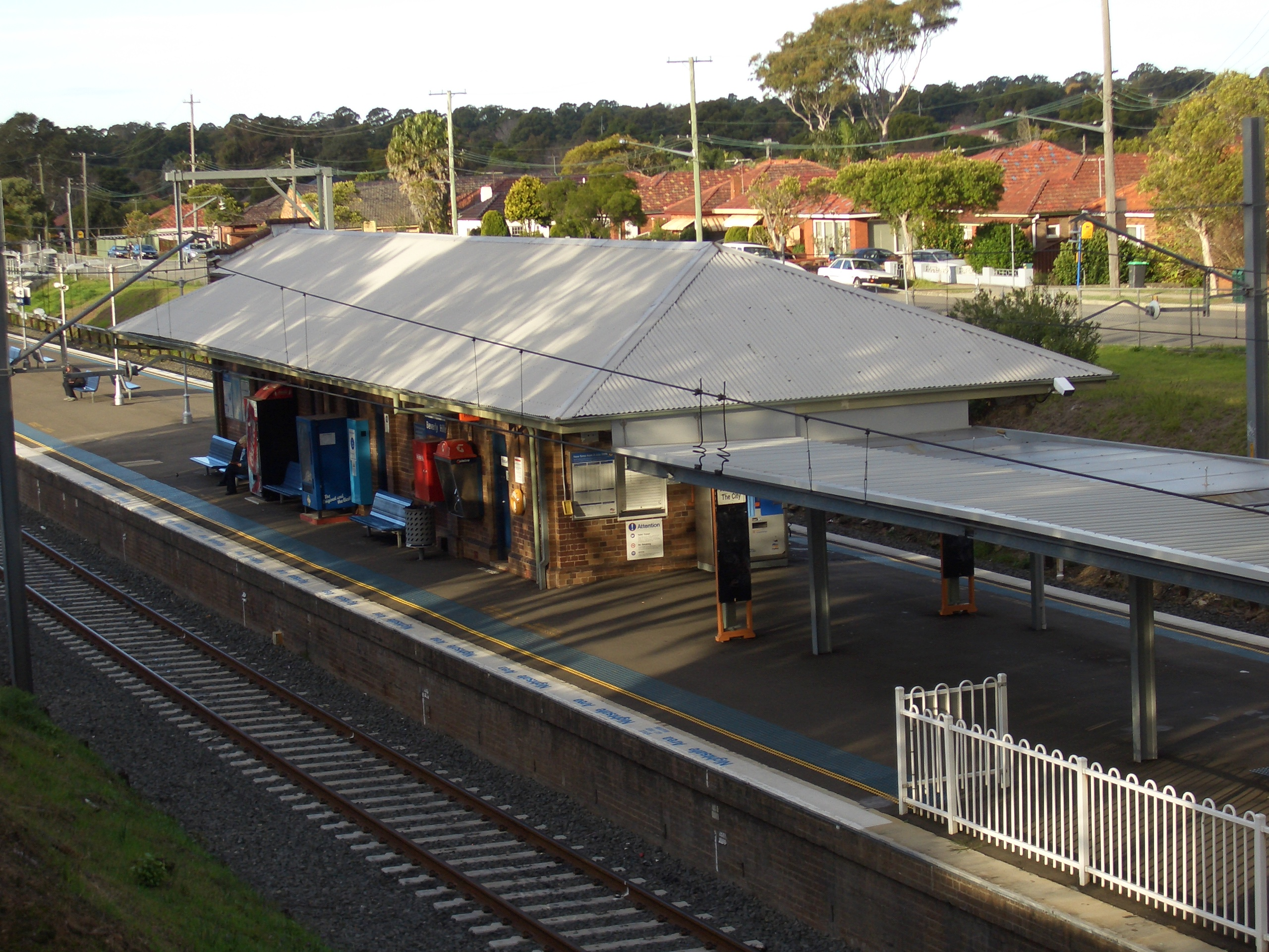 Beverly Hills railway station, Sydney